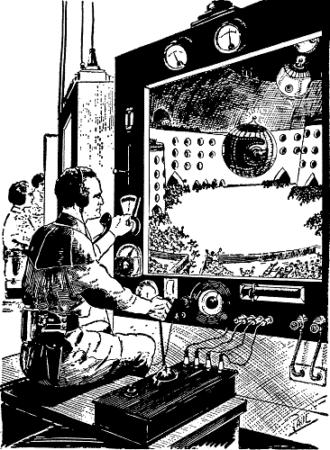 Project Gutenberg copyright analysis: "This etext was produced from Amazing Stories Fact and Science Fiction May 1962 and was first published in Amazing Stories March 1929. Extensive research did not uncover any evidence that the U.S. copyright on this publication was renewed." Illustration of "Buck Rogers" operating the control board of an "air-ball", a remotely controlled UAV. 1929.